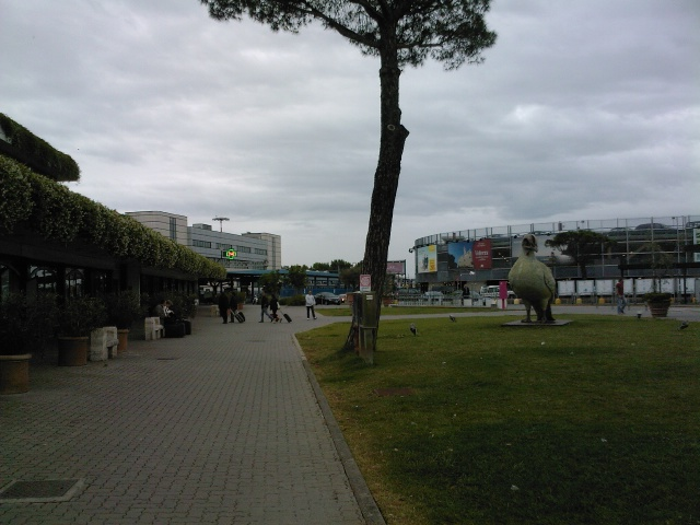 Airport of Pisa